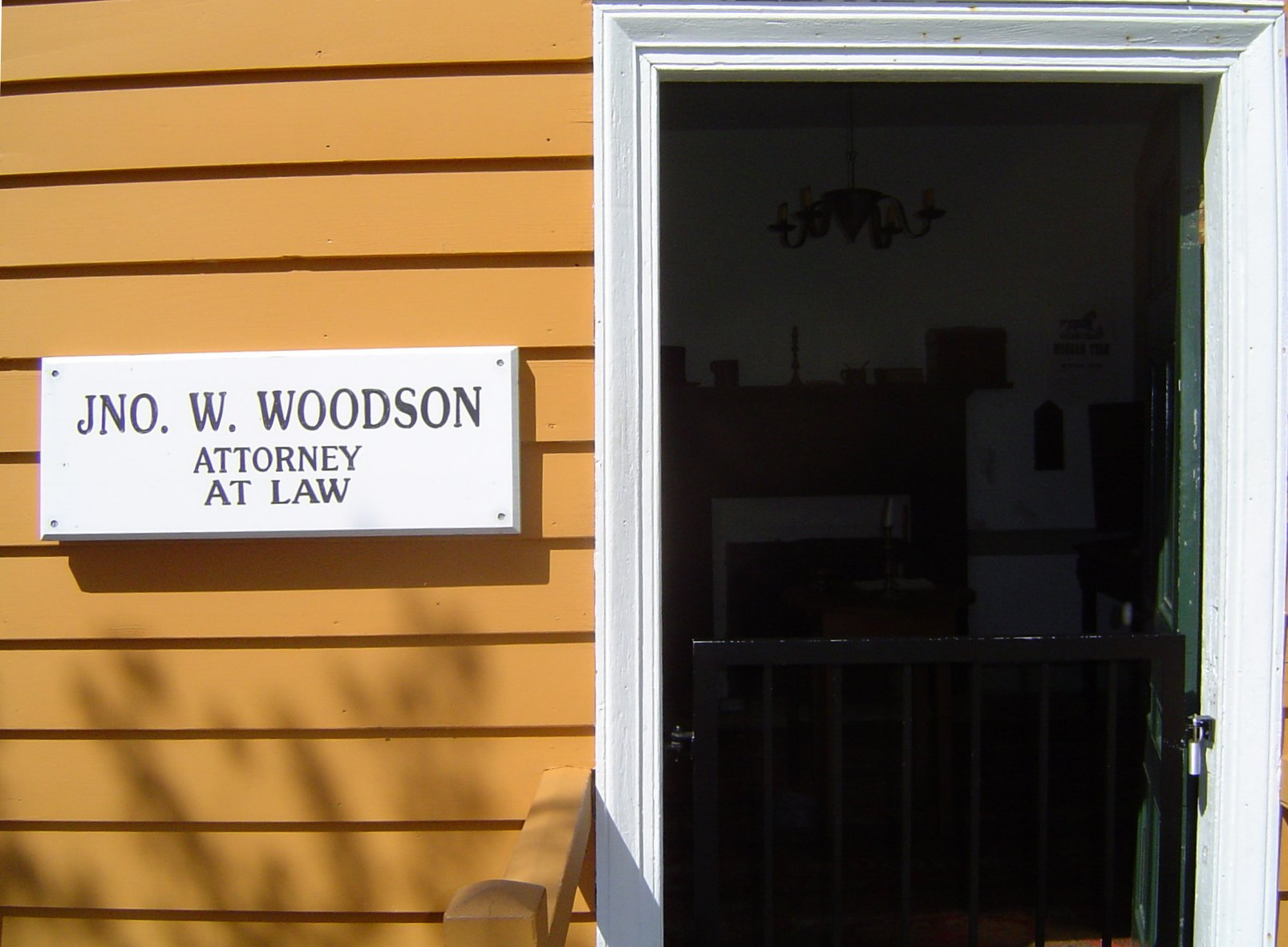 John W Woodson law office front door with business sign